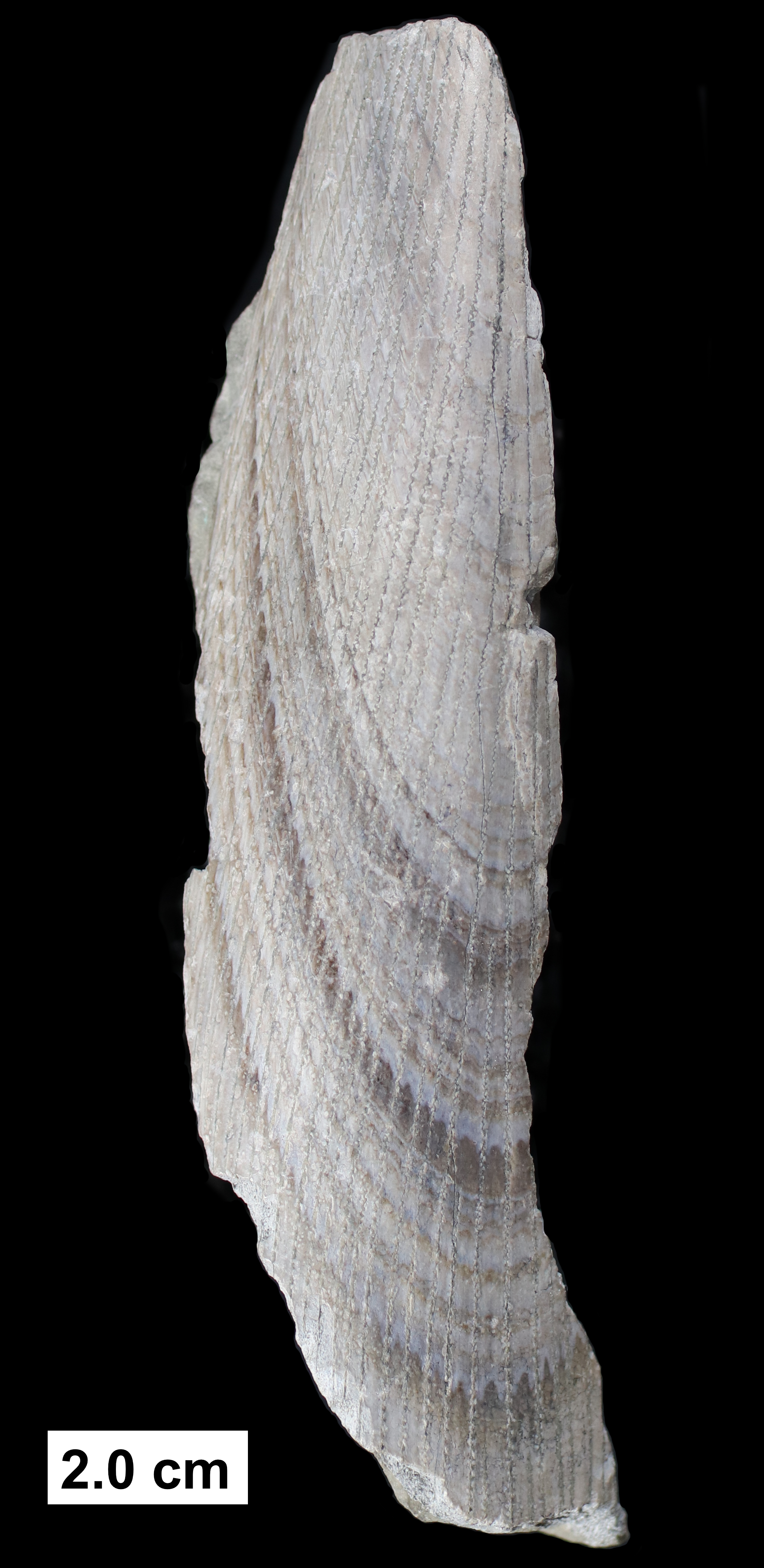 Fin spine of the ptyctodont, Gamphacanthus, showing color patterns; Middle Devonian; Milwaukee Formation; Berthelet Member; Milwaukee County, Wisconsin; UWM-GM 18269; photograph originally published in K.C. Gass, J. Kluessendorf, D.G. Mikulic, and C.E. Brett, 2019. Fossils of the Milwaukee Formation: A Diverse Middle Devonian Biota from Wisconsin, USA. Siri Scientific Press, Manchester, UK.